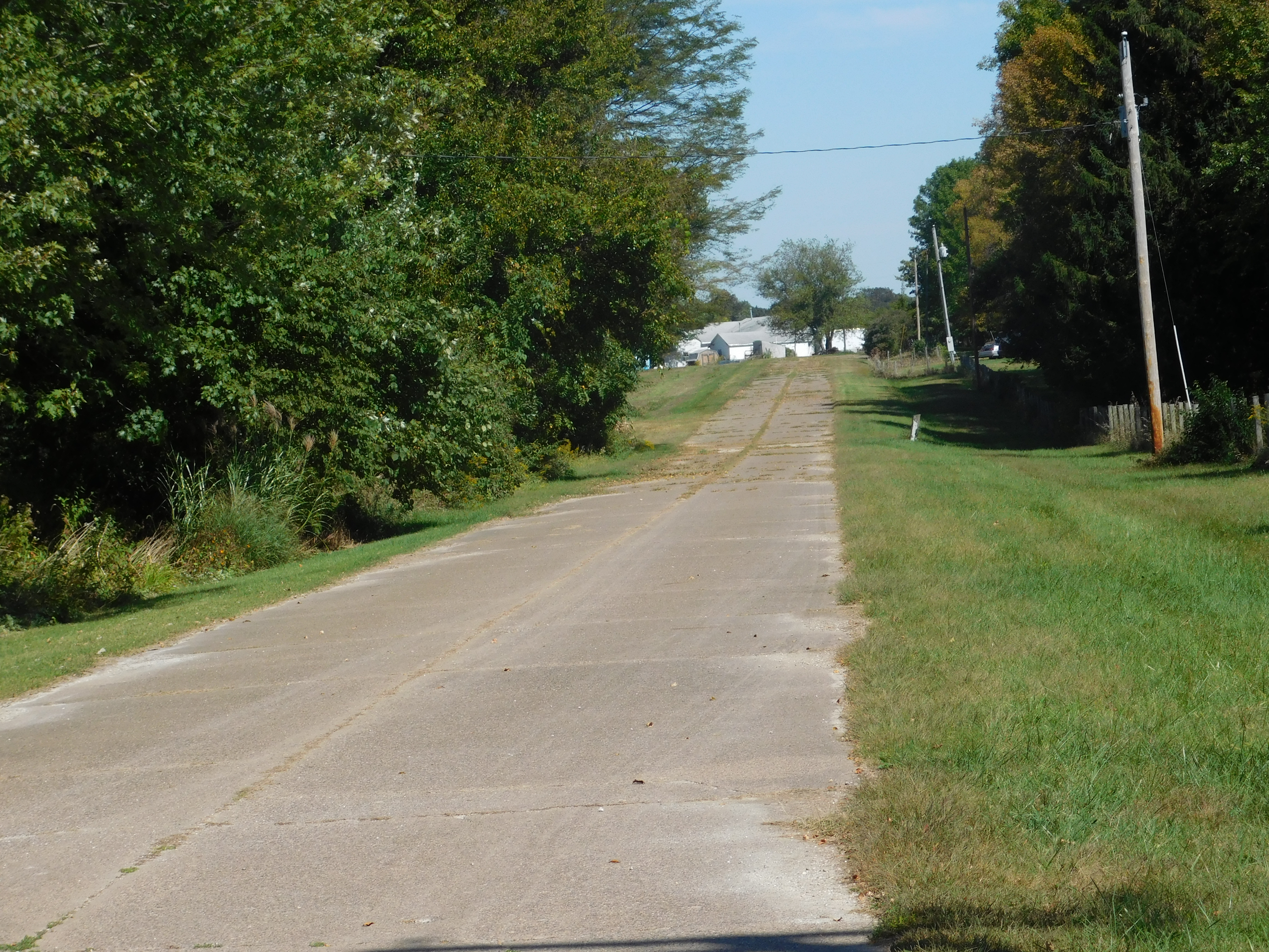 The former alignment of US 34 in Warren County, Illinois.